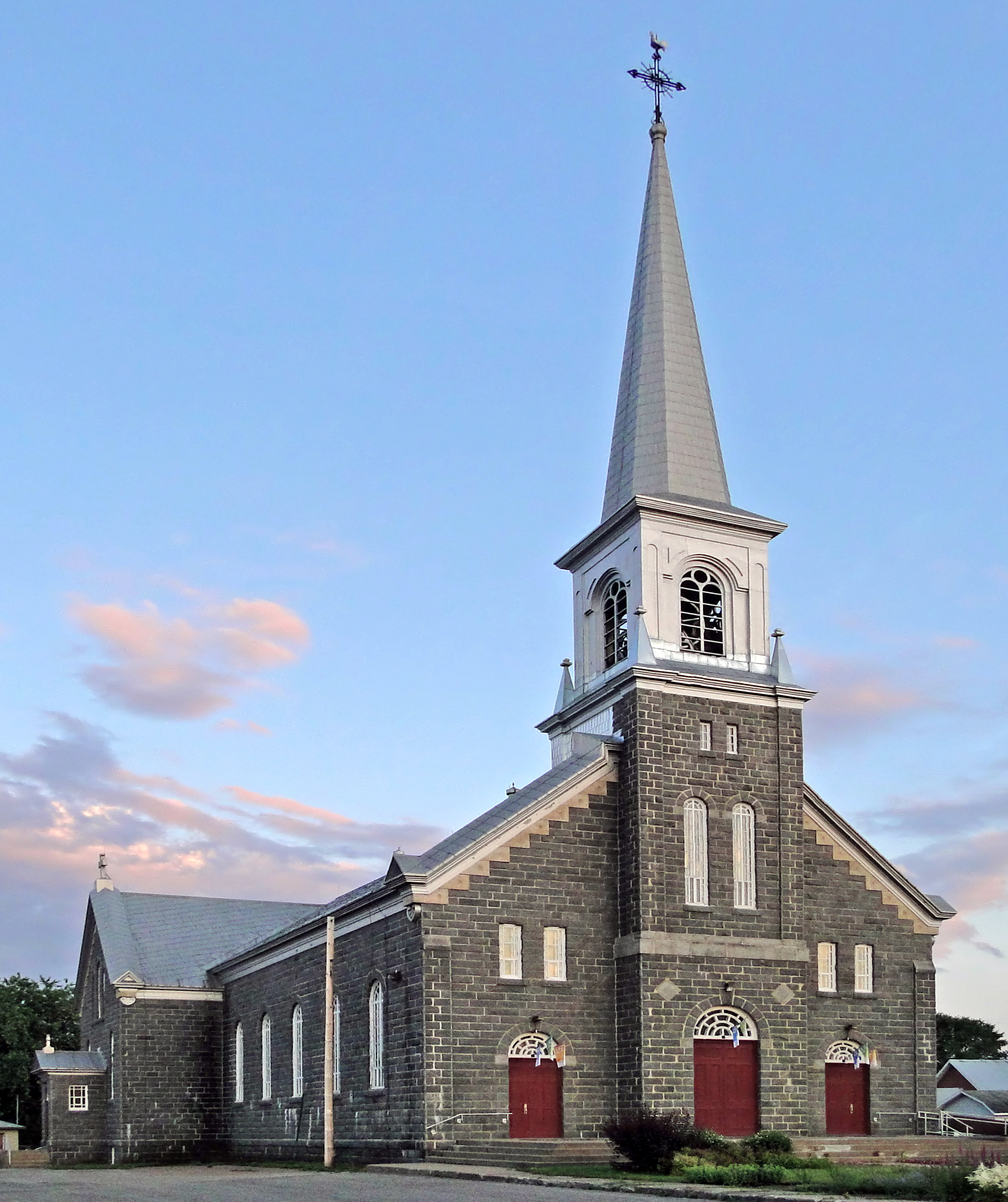 Notre-Dame-des-Sept-Douleurs Church, Portneuf, province of Quebec, Canada